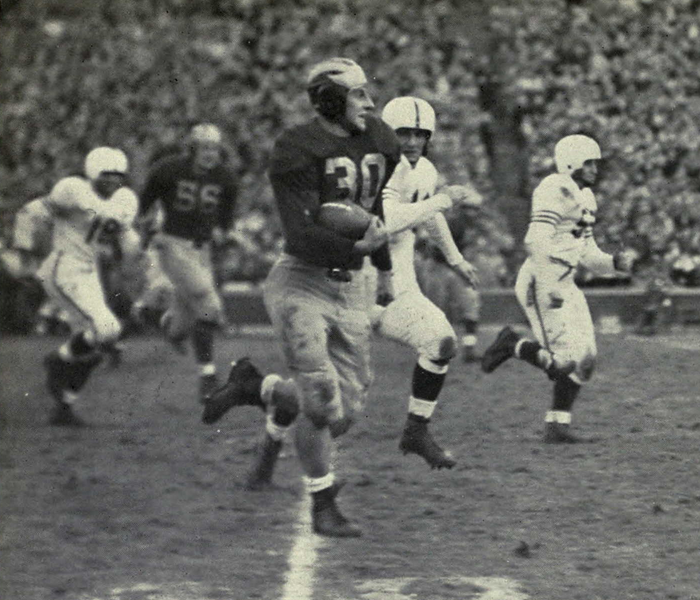 Photograph of Don Dufek, Most Valuable Player on the 1950 Michigan Wolverines football team This work is in the public domain because it was published in the United States between 1923 and 1963 and although there may or may not have been a copyright notice, the copyright was not renewed. Unless its author has been dead for the required period, it is copyrighted in the countries or areas that do not apply the rule of the shorter term for US works, such as Canada (50 pma), Mainland China (50 pma, not Hong Kong or Macao), Germany (70 pma), Mexico (100 pma), Switzerland (70 pma), and other countries with individual treaties. See Commons:Hirtle chart for further explanation. This work is in the public domain in the United States because it was published in the United States between 1923 and 1977 without a copyright notice. See Commons:Hirtle chart for further explanation. Note that it may still be copyrighted in jurisdictions that do not apply the rule of the shorter term for US works (depending on the date of the author's death), such as Canada (50 p.m.a.), Mainland China (50 p.m.a., not Hong Kong or Macao), Germany (70 p.m.a.), Mexico (100 p.m.a.), Switzerland (70 p.m.a.), and other countries with individual treaties.